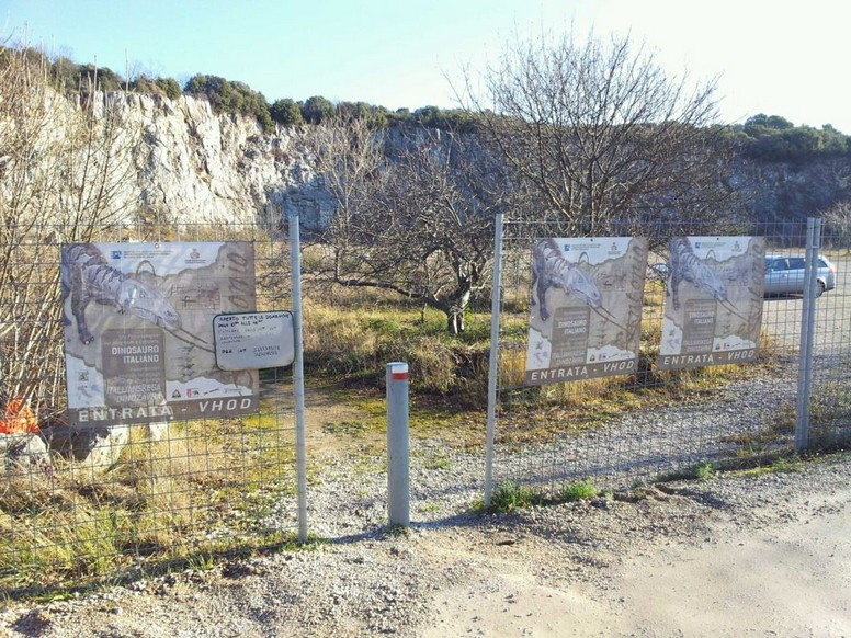 Finding site of a Tethyshadros insularis skeleton, nicknamed "Antonio".